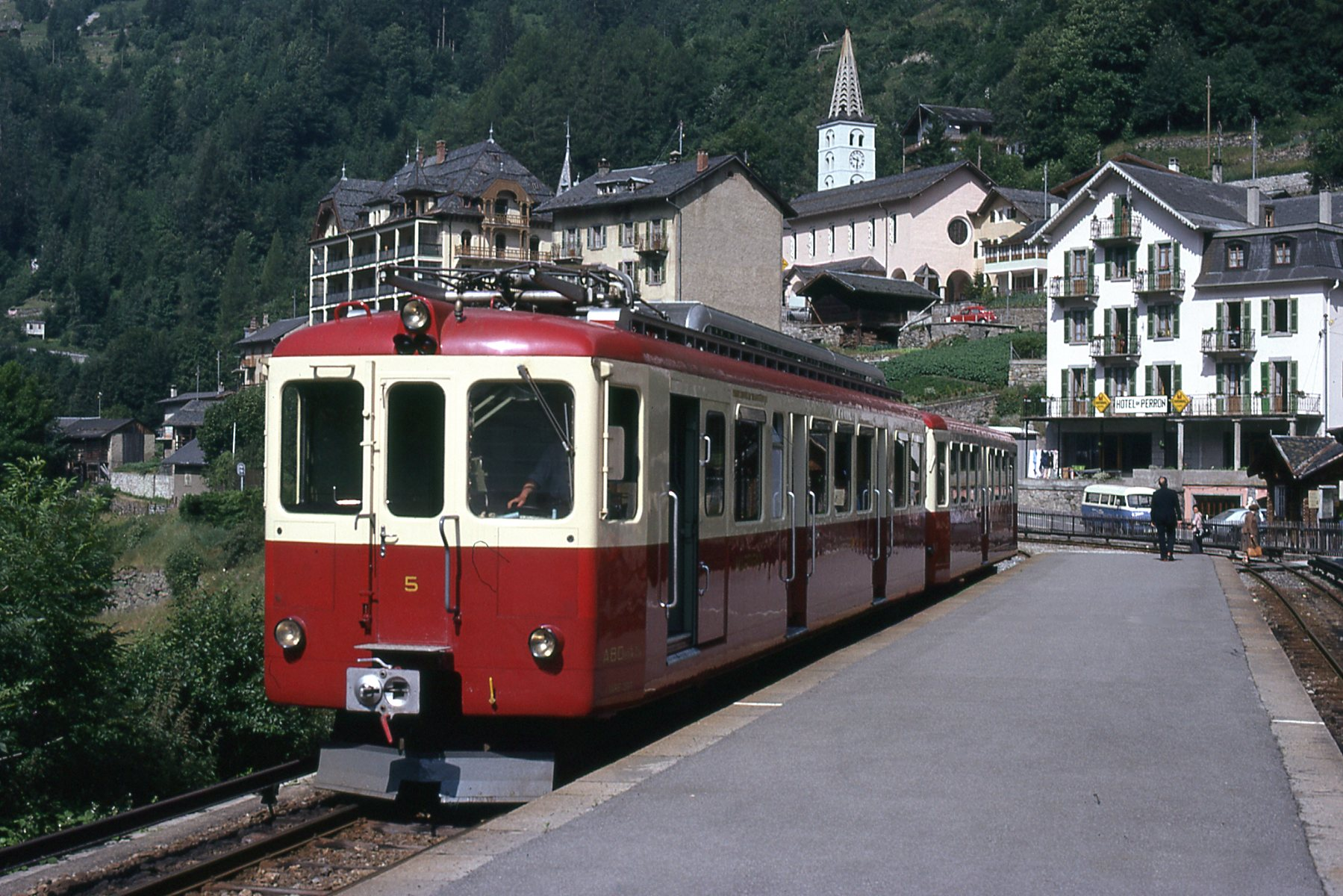 Photo: Trams aux Fils.